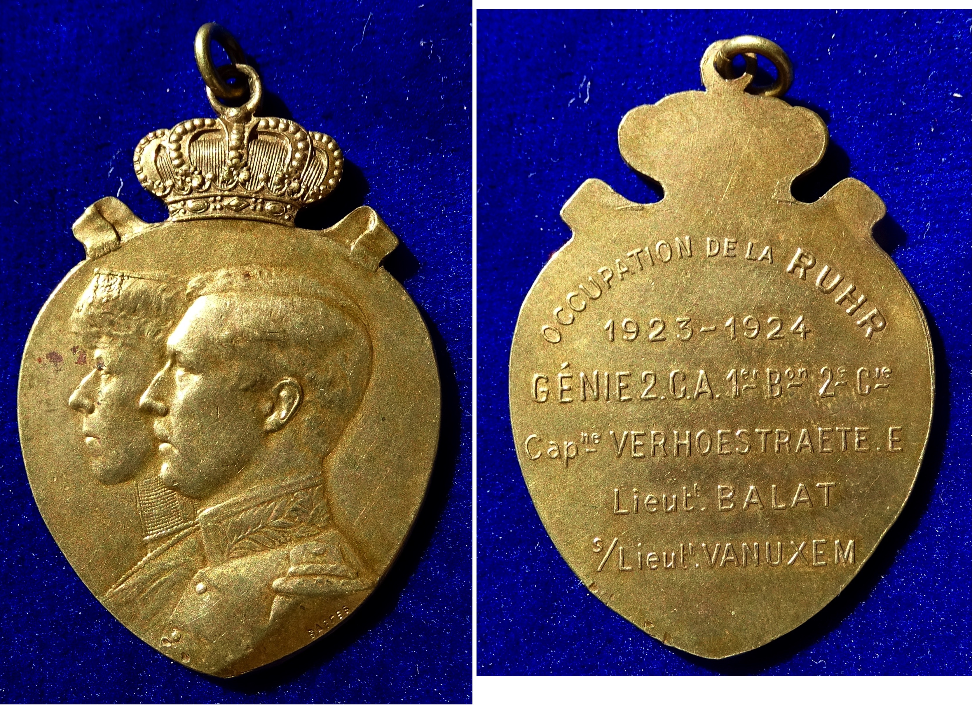 Belgium 1924 Occupation of the Ruhr, Bronze Medal, EF. Medallion 32 x 46 mm. Albert I, 1909-1934 and Elisabeth of Bavaria, 1876 Possenhofen Castle, Bavaria - 1965 Brussels, Belgium / Captain E. Verhoestraete, Lieutenant Balat, and Sous-lieutenant Vanuxem Crowned medal with the portraits of the Royal Belgian Couple l./ 6 lines: "OCCUPATION DE LA RUHR 1923 - 1924 GÉNIE 2. C. A. 1er Bon 2e Cie Capne VERHOESTRAETE. E Lieutt. BALAT s/Lieutt. VANUXEM". Artist: Jules Baetes, 1861 Antwerpen - 1937 Antwerpen Condition: EXTREMELY FINE